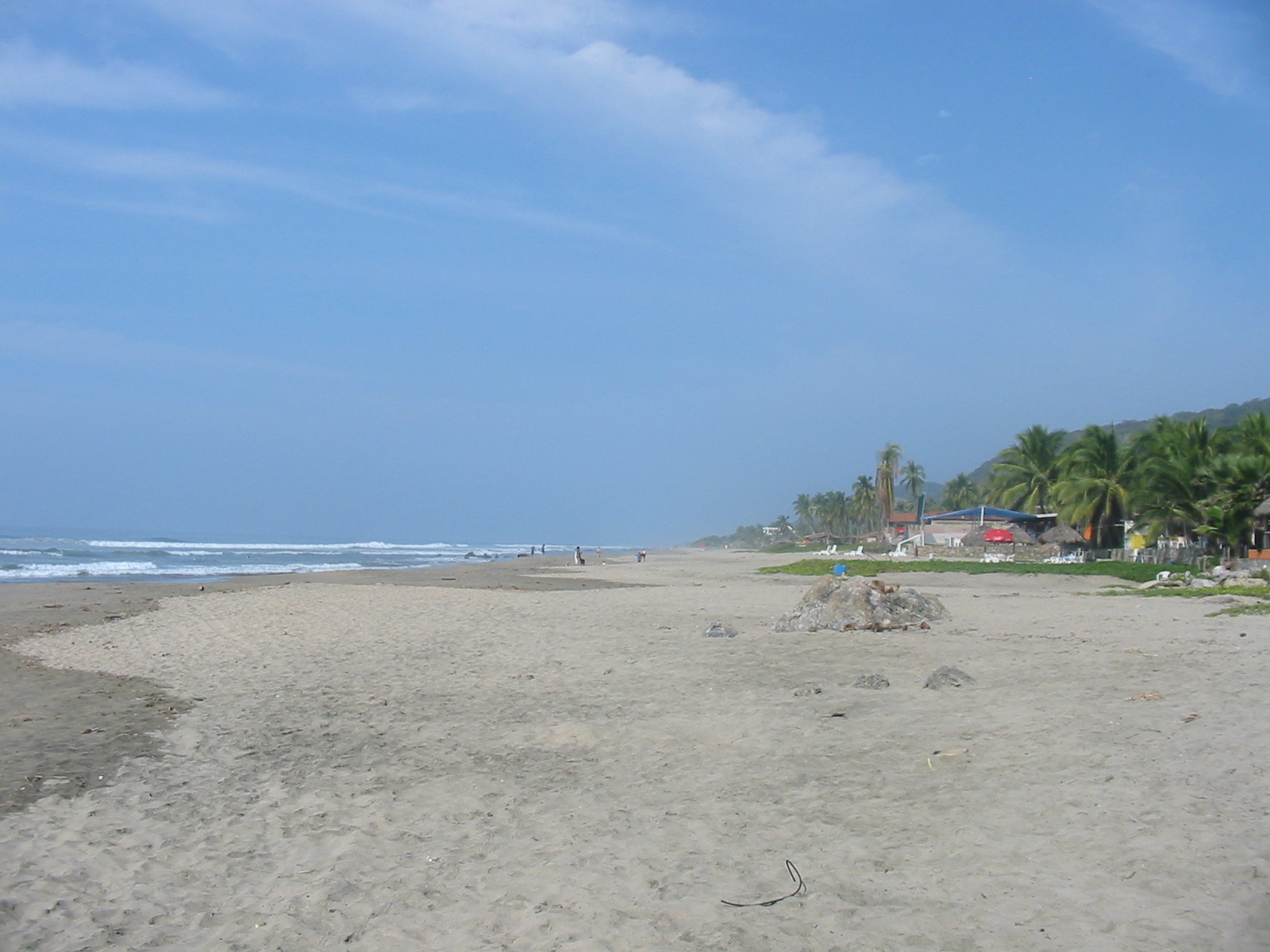 Playa Troncones (beach) located in the municpality of La Union, Guerrero state near Zihuatanejo